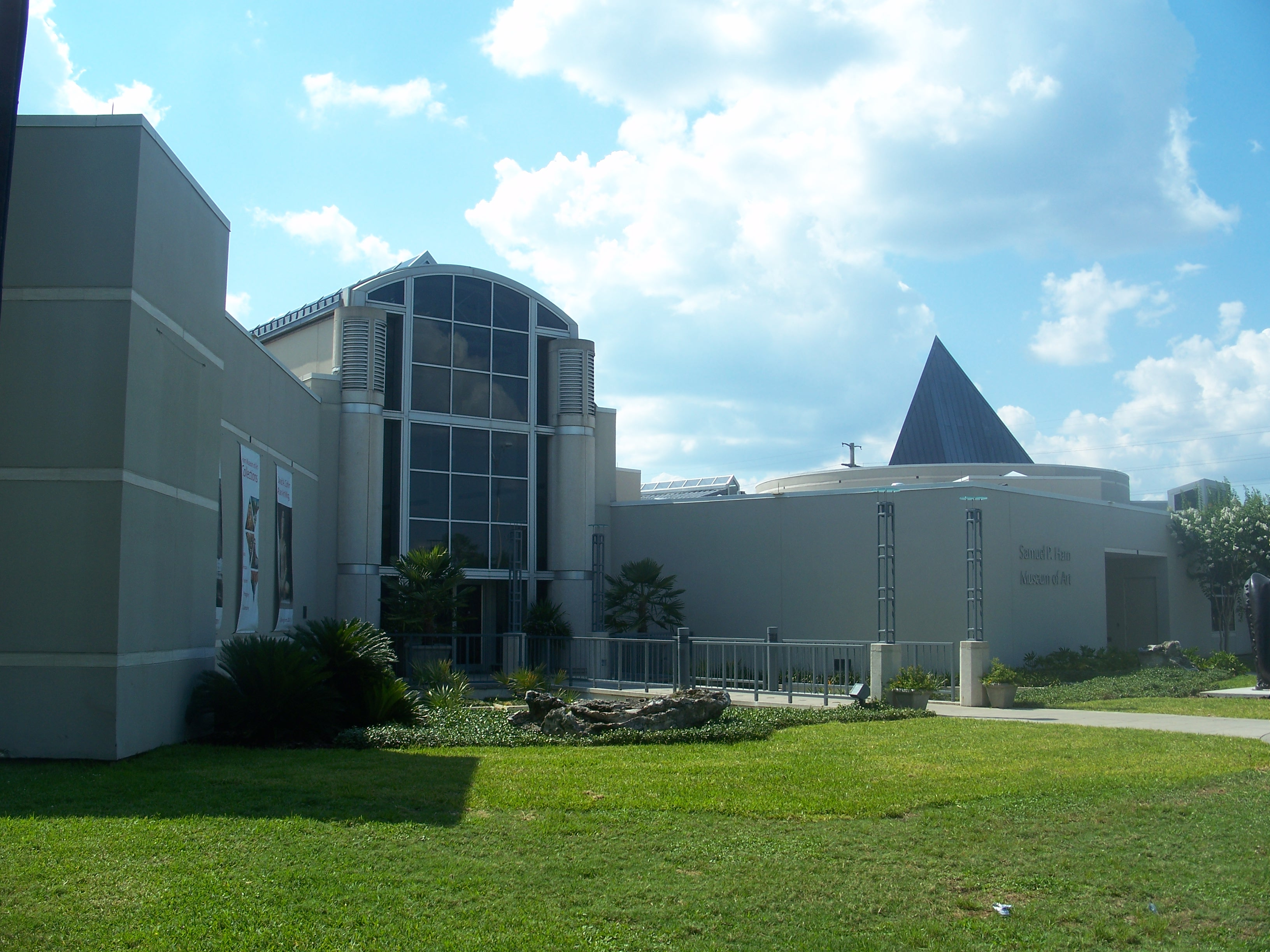 Gainesville, Florida: Samuel P. Harn Museum of Art